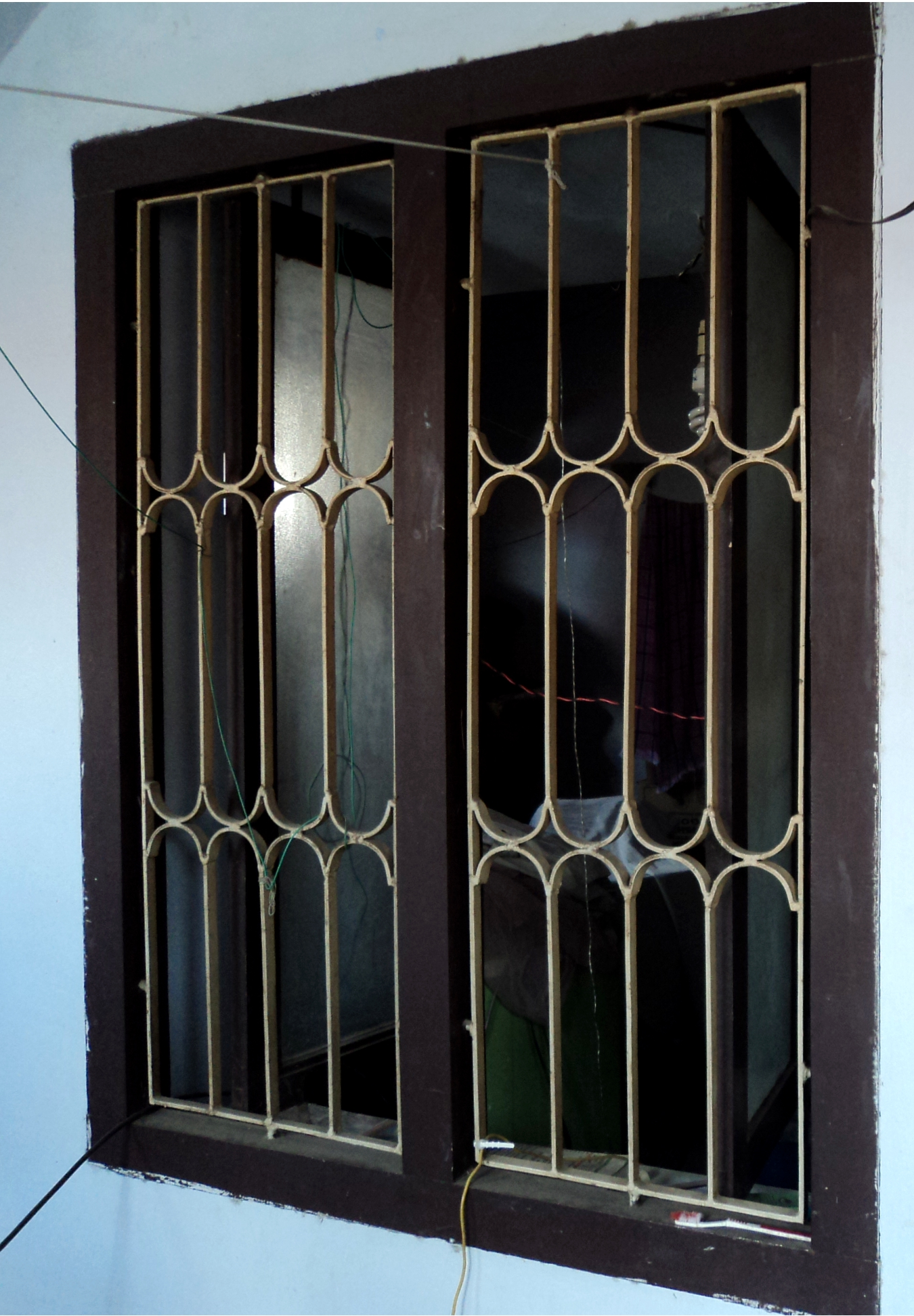 one of the window model in Tamil Nadu